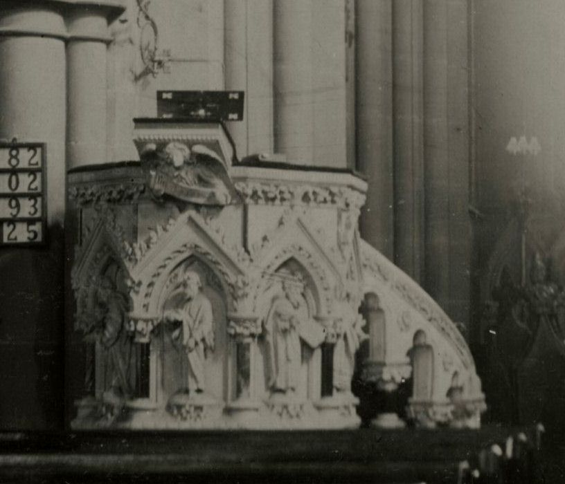 Pulpit carved by Robert Mawer in St Paul's Manningham (part of image as described below). Part of a pre-1914 photo postcard of the interior of the Church of St Paul, Manningham, Bradford, West Yorkshire, England. The postcard is dated after 1902 bcause the card has a divided back, and before 1914 because of the type and quality of image. The pulpit and general carving was designed in general terms by Mallinson & Healey, and executed by Robert Mawer. The card is in perfect condition but the image has darkened considerably with age. The pulpit was removed in 1960 and replaced with a plain light oak one.